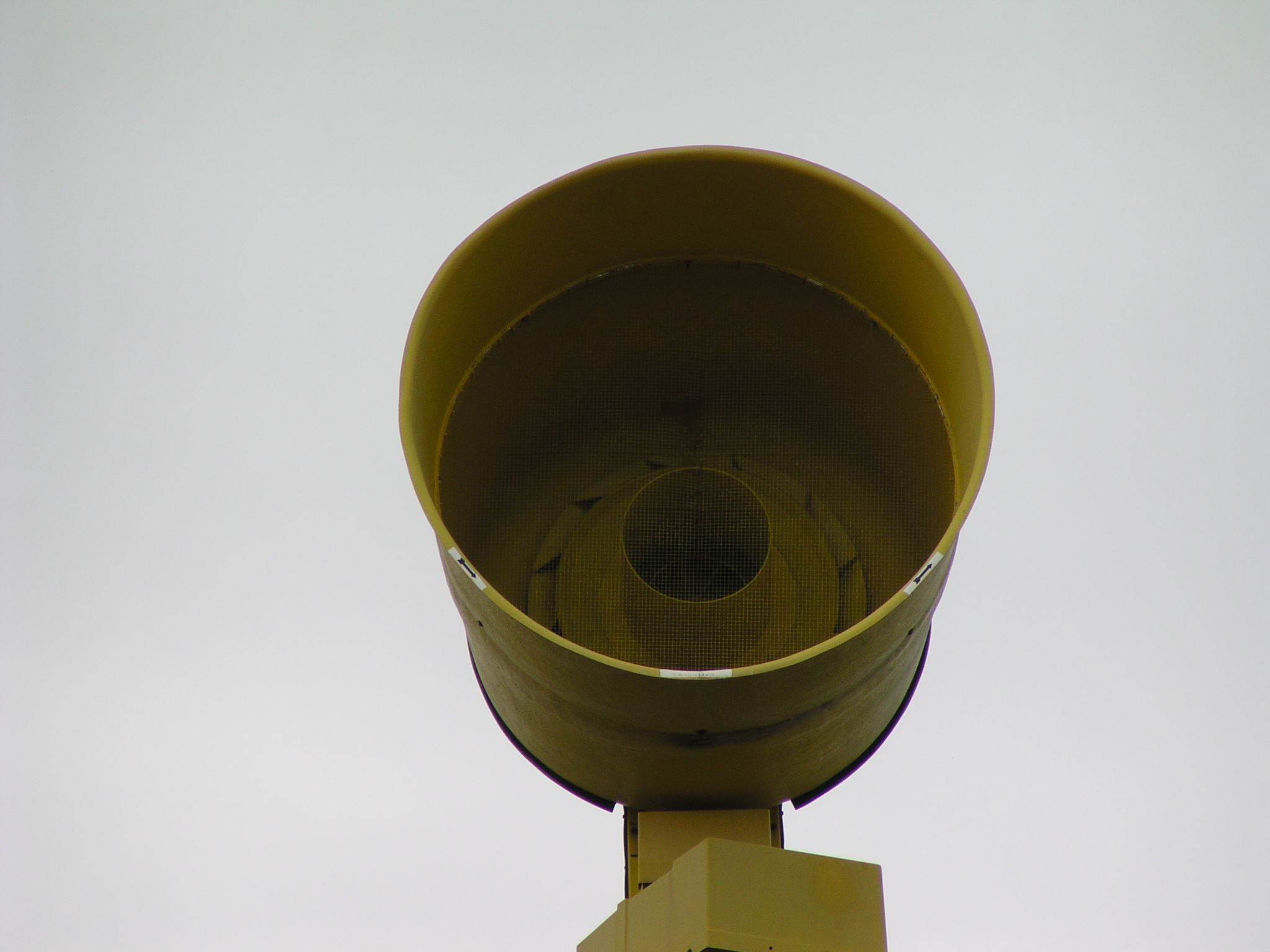 The Small Tube is the air intake the "fluting" arroud the bottom of the chopper is the air exit Credits Brent Bwillcox